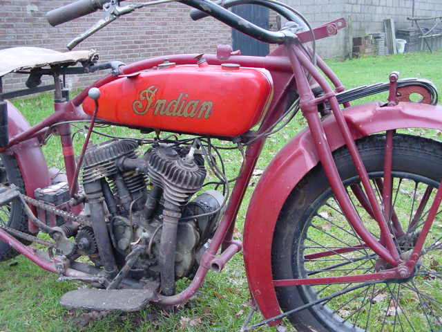 Indian Chief motorcycle from 1924